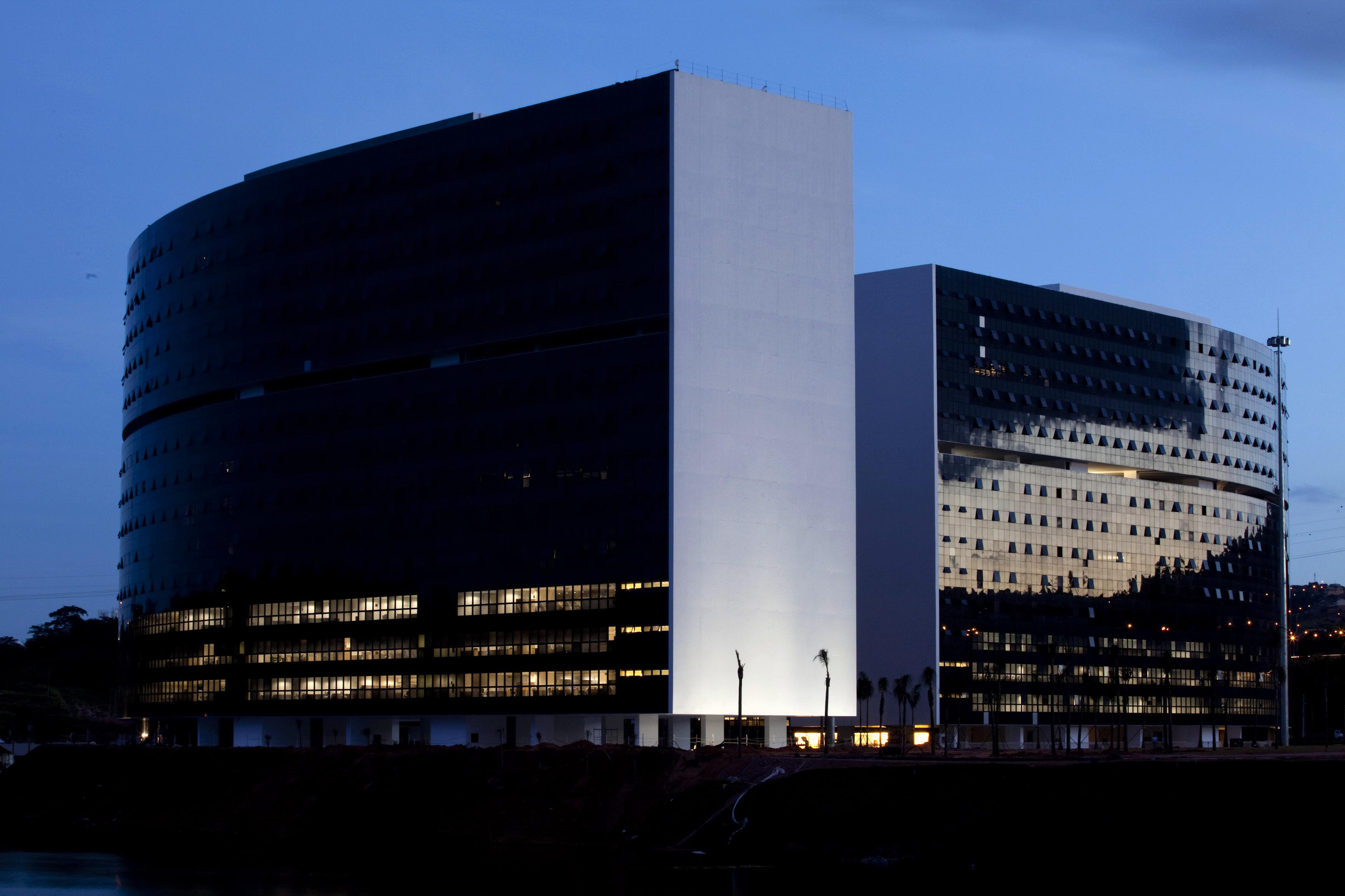 Foto da Cidade Administrativa